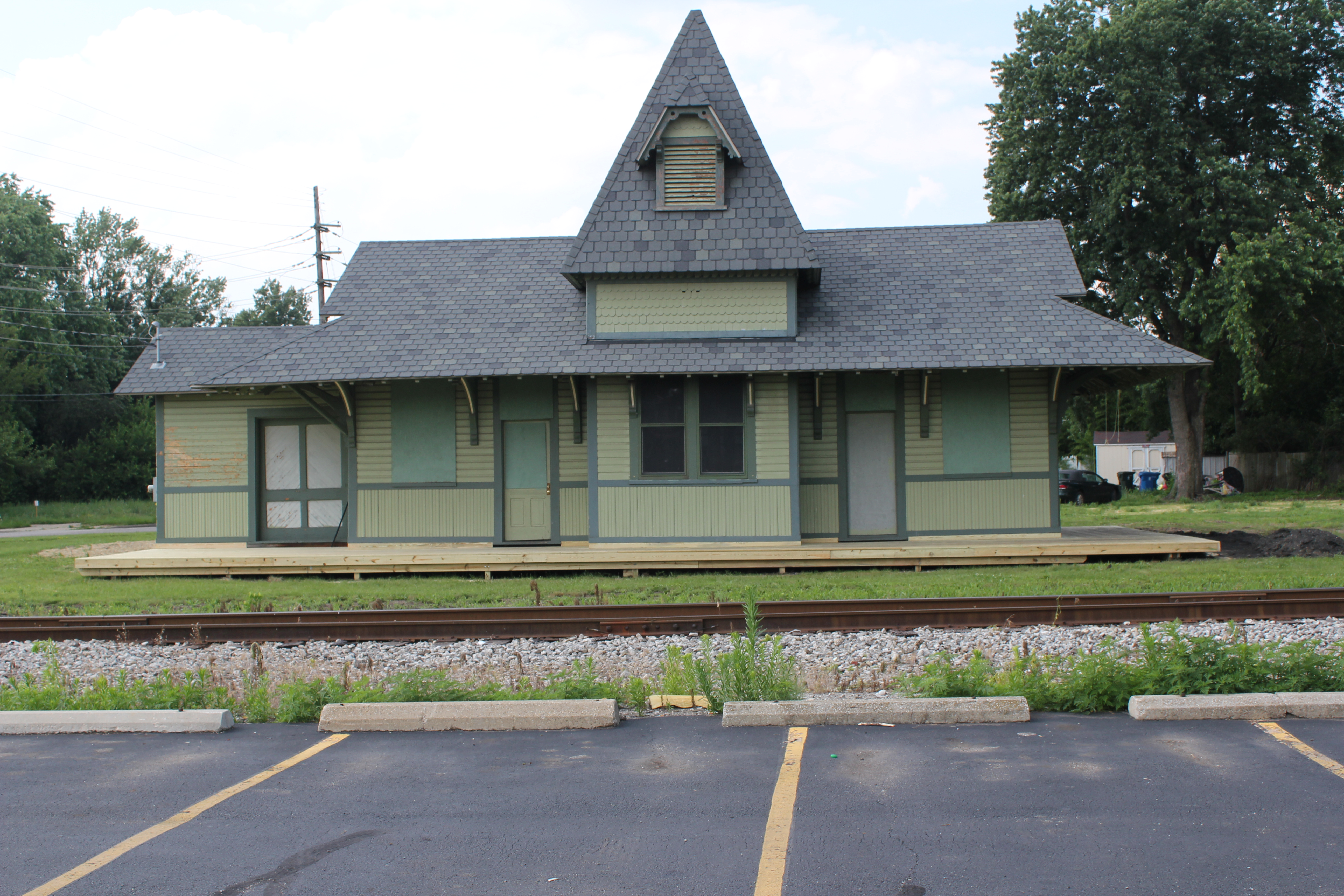 Front of the Depot